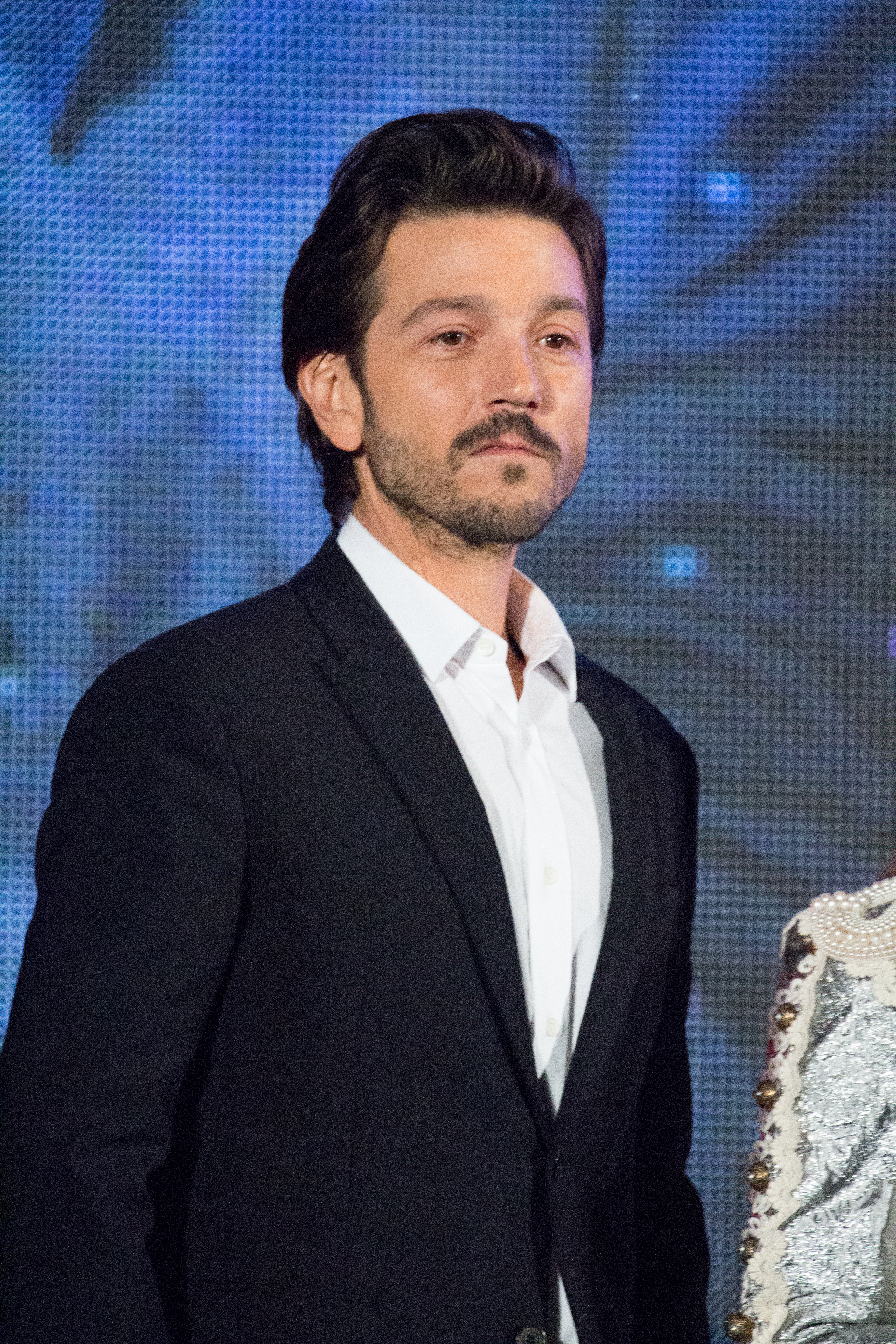 Diego Luna at Rogue One: A Star Wars Story Japan Premiere Red Carpet on December 8, 2016.